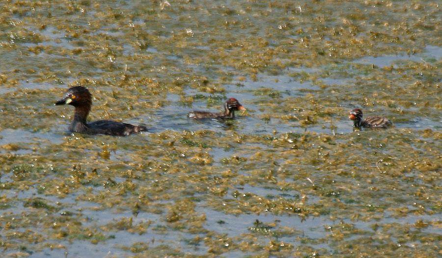 Little Grebe or Dabchick Tachybaptus ruficollis in Krishna Wildlife Sanctuary, Andhra Pradesh, India.